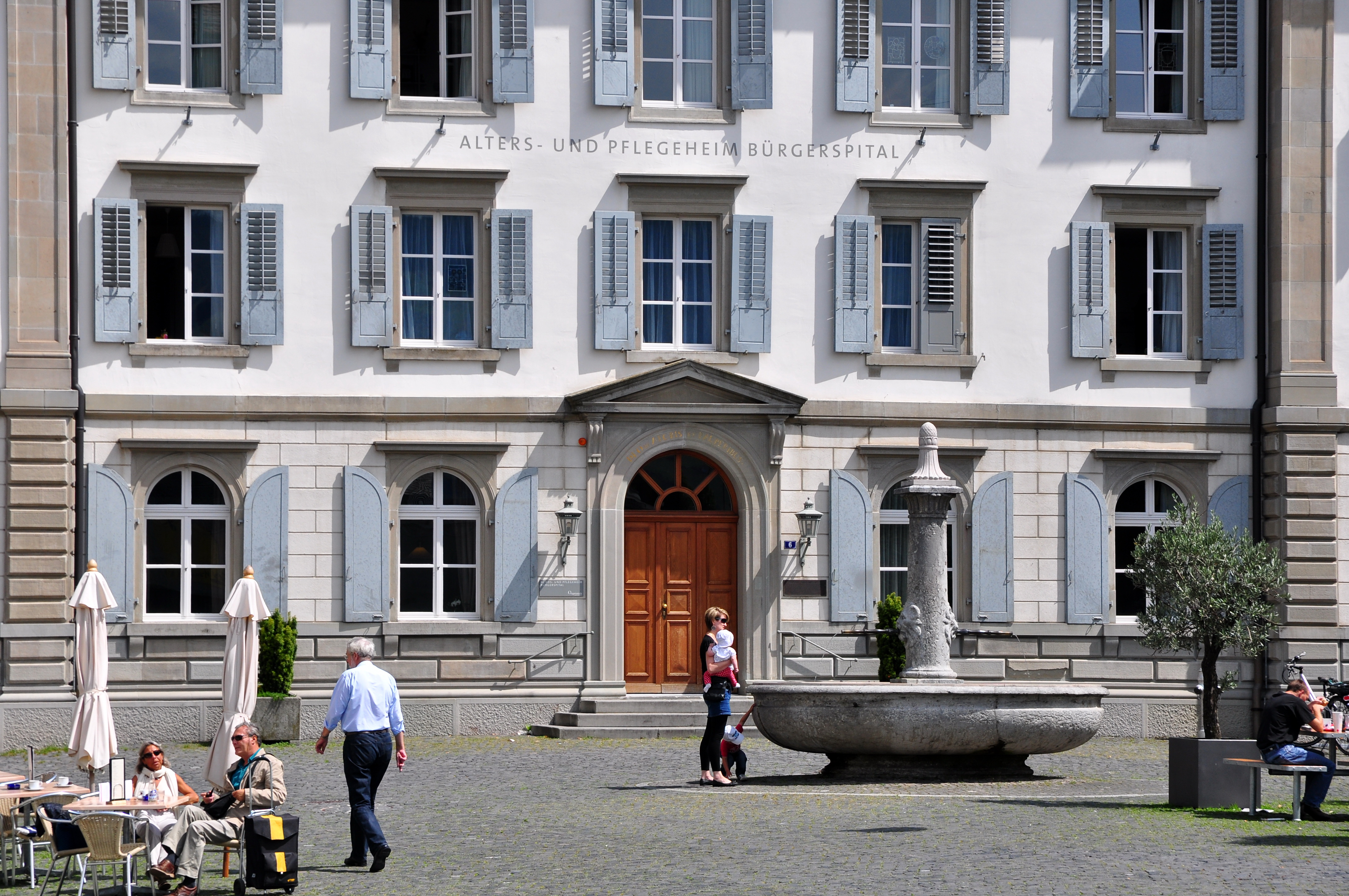 The former Heiliggeist-Spital (1845, first mentioned in the 13th century A.D.) at Fischmarktplatz in Rapperswil (Switzerland)